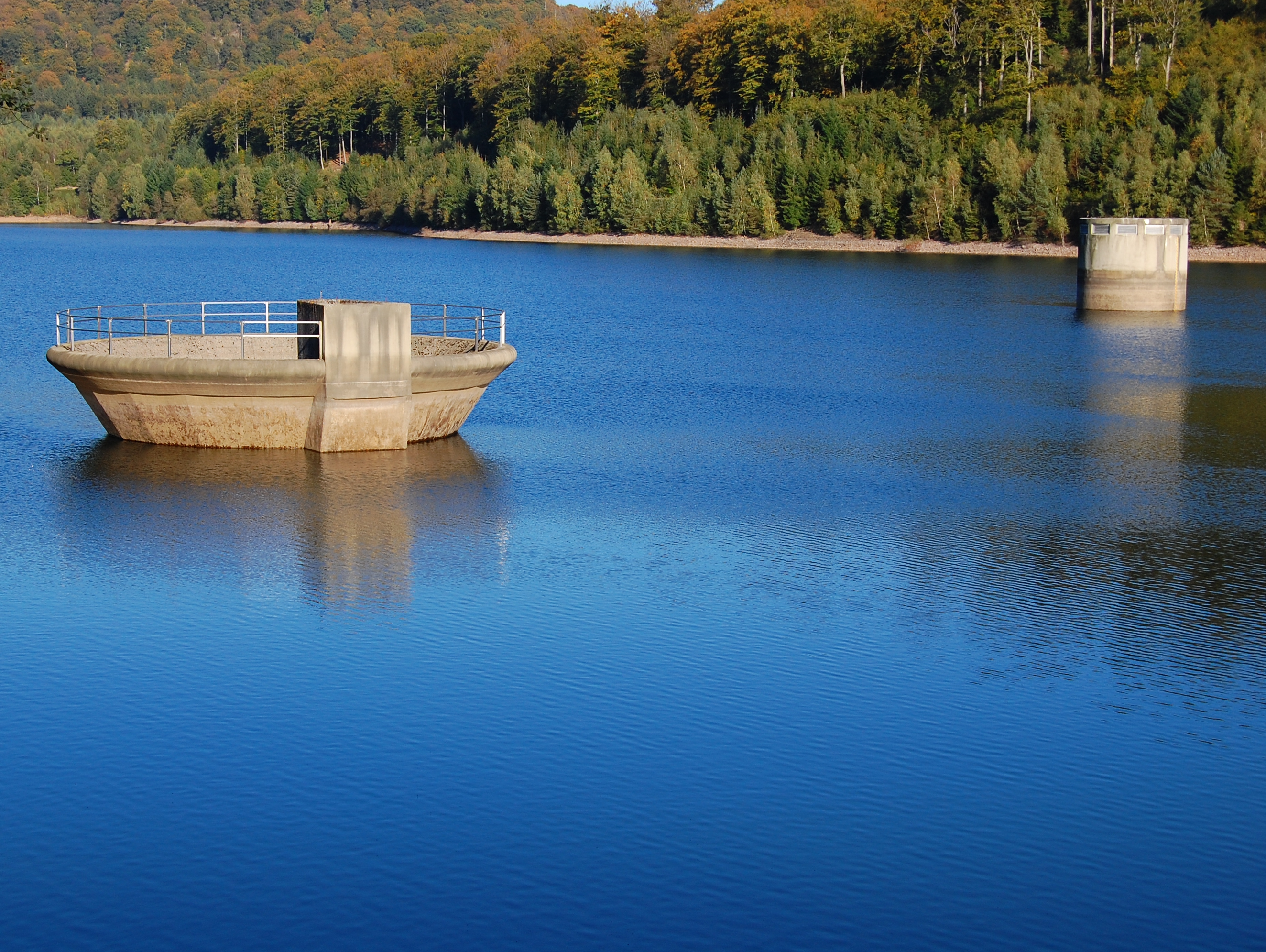 Picture of the glory hole (left) and drinking water extraction (right) at Primstalsperre near Nonnweiler, Germany